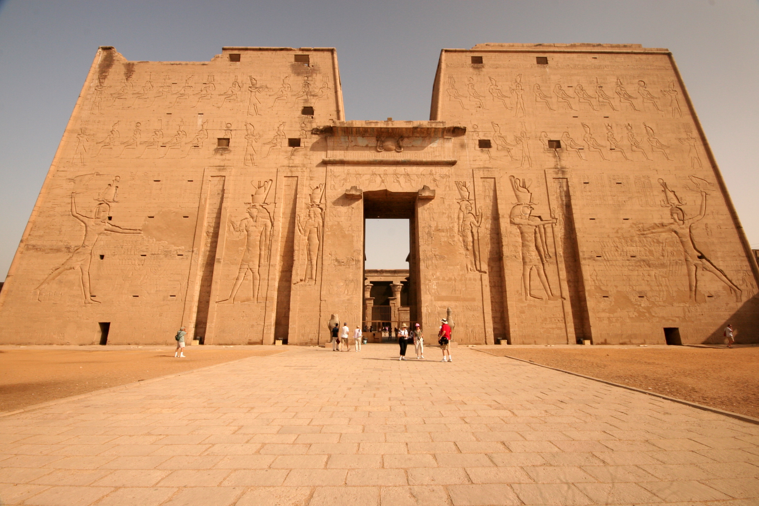 Edfu Temple, Egypt.